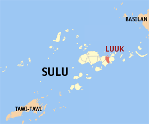 Map of the Sulu showing the location of Luuk